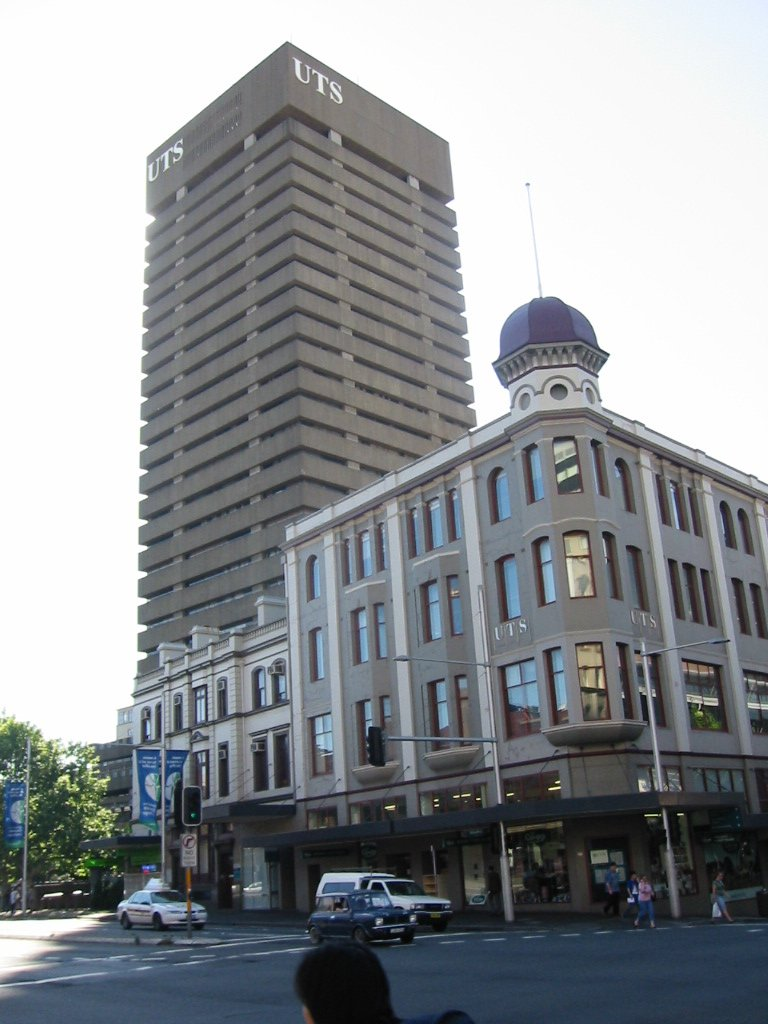 UTS in Sydney.